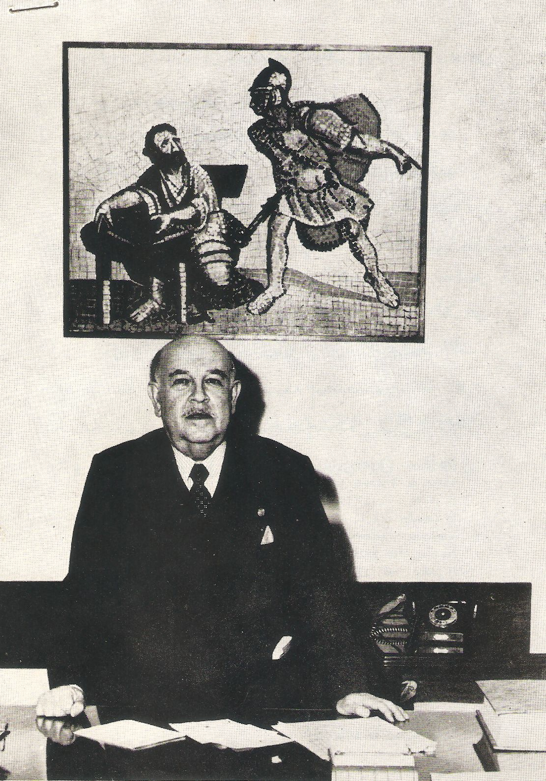 Artistas europeos y latinoamericanos